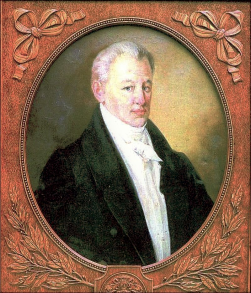 Ukrainian writer and poet Ivan Kotlyarevsky (1769-1838), classic of Ukrainian literature